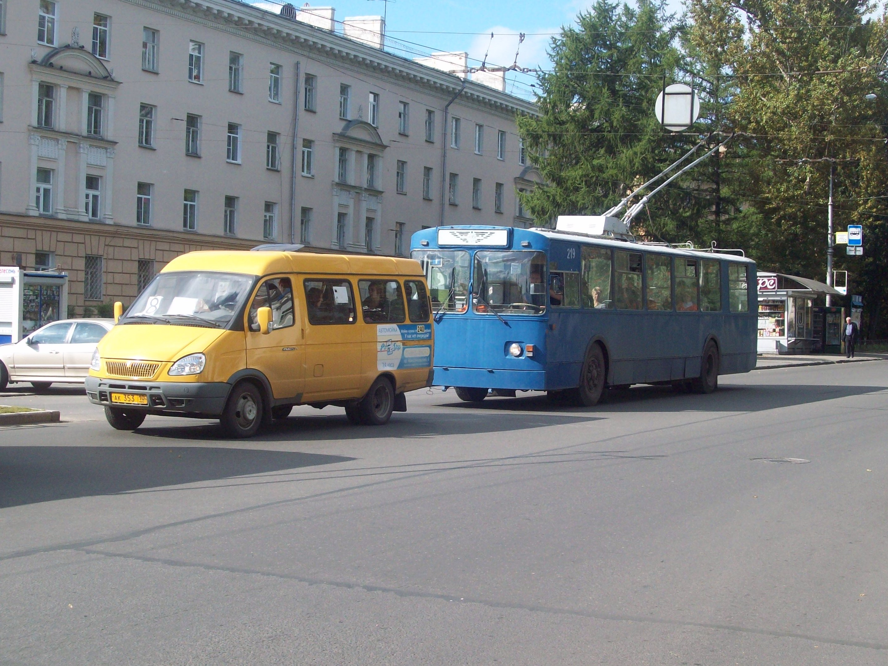 Petrozavodsk trolleybus and marshrutka